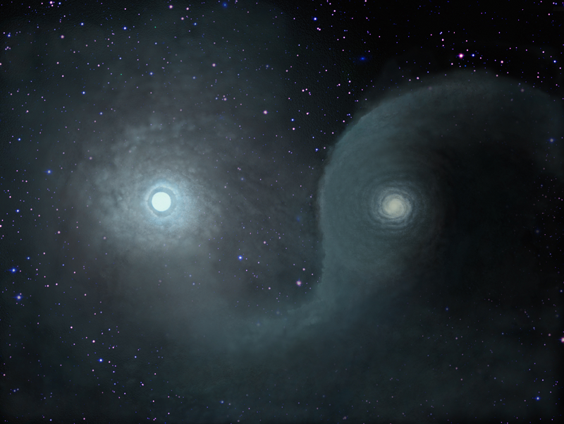 This is an artistic rendering of the epsilon Aurigae star system, seen from above or below (low inclination).